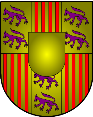 Arms of the Portuguese Counts of Tarouca. Made by JSobral